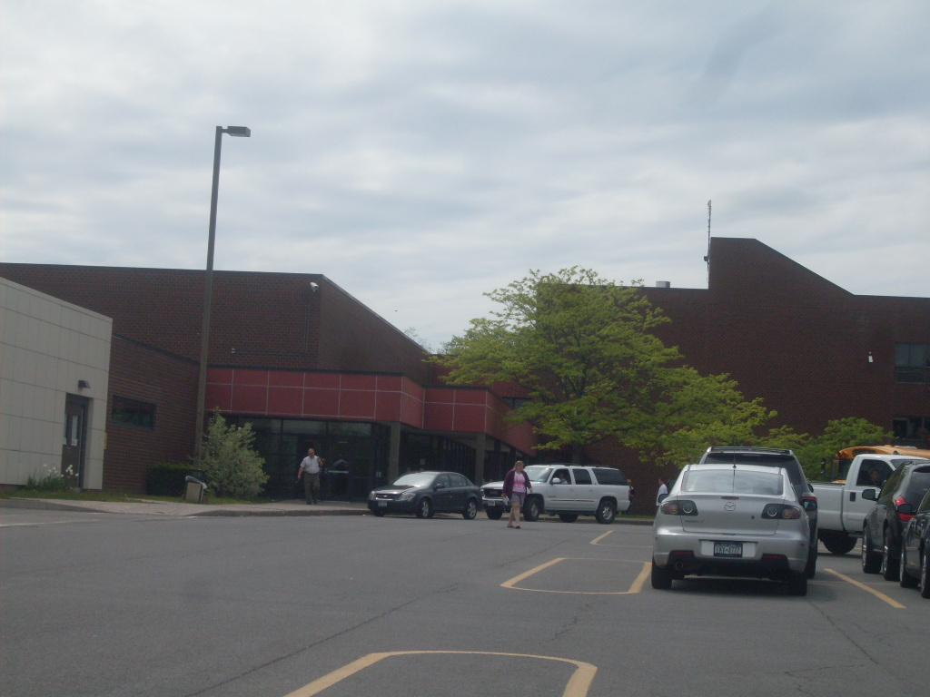 Geneva High School 101 Carter Road Geneva, NY 14456